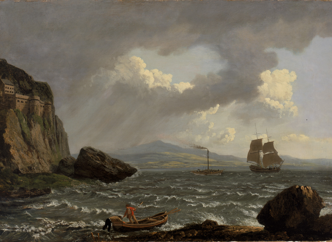 Paddle steamer 'Dumbarton Castle' in the Clyde off Dumbarton Rock A painting showing the paddle steamer ‘Dumbarton Castle’ in the Clyde, off Dumbarton Rock. The artist has shown her from the perspective of the shore and has set the ship against the spectacular scenery with Dumbarton Castle positioned high on the left. The far shore is cast in cloud and rain and the near shore is shown in the immediate foreground on the right. Smoke from the stack of the steamer echoes the clouds and sheets of rain falling over the land. The painting contrasts different methods of sail, from the sailing brig on the right, the steamer with its smoke trailing and the rowing boat on the shore in the foreground. The ‘Dumbarton Castle’ built in 1815, was the first of the Rothesay steamer trade and brought leisure travel via the day-long excursion trip. Although there were many vessels operating in river estuaries there are very few paintings of them and this is an early example. John 'Jock' Wilson (1774-1855) was son of a Scottish merchant sea captain who became a house painter before having some art tution from Alexander Nasmyth and then practising as a drawing master. When he came to London in 1798 he continued house painting until employed for many years from the early 1800s to at least 1827 as a theatrical scene-painter. During this time he also began exhibiting oil works, mainly marine subjects and in large numbers, at the Royal Academy from 1807 and later at the Society of British Artists, of which he was a founder member in 1823-24 and President in 1827. He moved to Folkestone in 1853 with his painter son John James Wilson, of whose work the Museum also has two examples. Paddle steamer ‘Dumbarton Castle’ in the Clyde off Dumbarton Rock